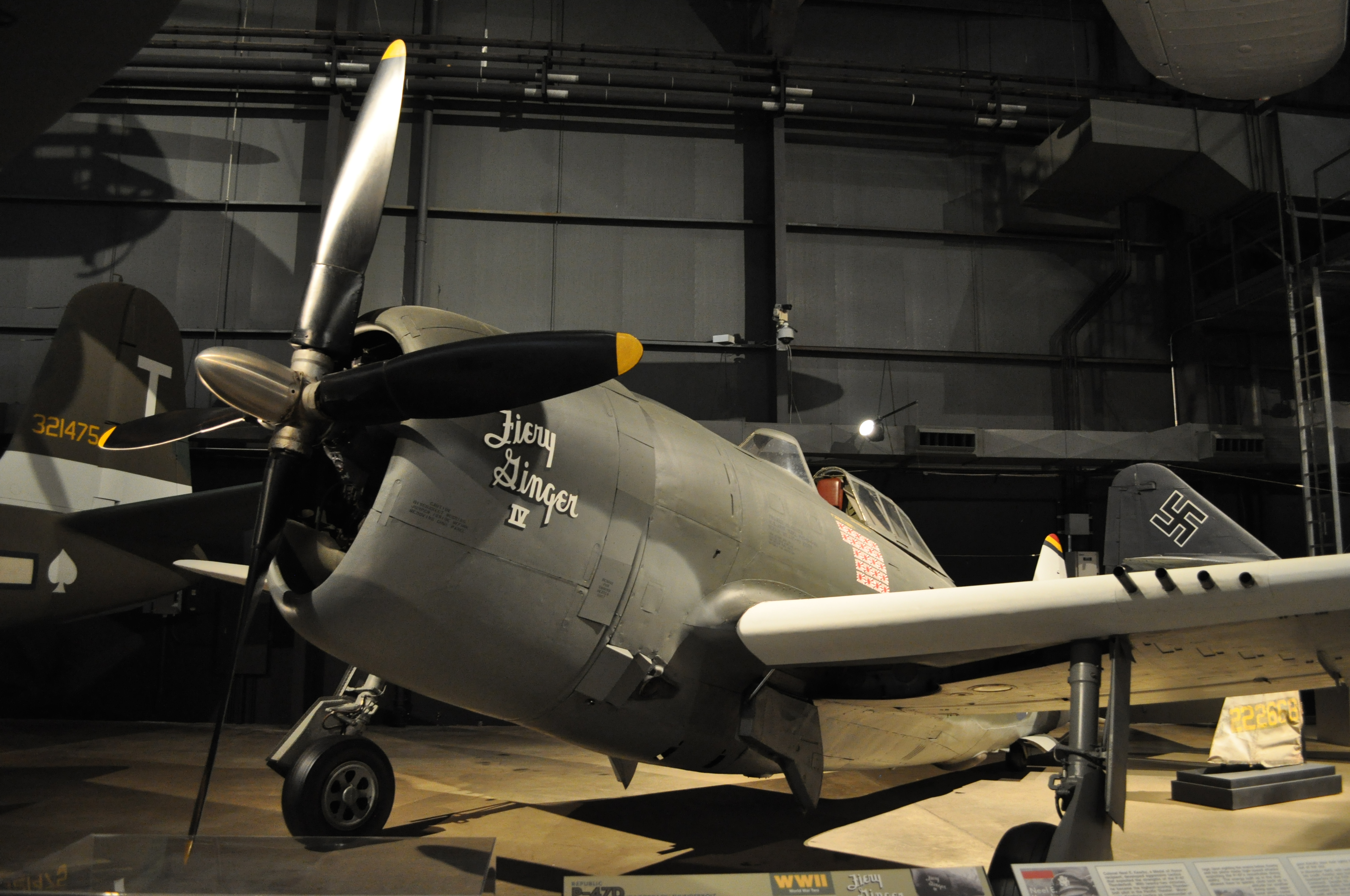 348th Fighter Group, Commander Col Neel Kearby, Papua New Guinea 1944 The P-47 was one of the most famous U.S. Army Air Forces fighter planes in World War II. Although the P-47 was originally conceived as a lightweight interceptor, it became a heavy fighter-bomber -- the P-47's maximum weight was over 17,000 pounds, while the comparable P-51 Mustang's was about 12,000 pounds. The prototype made its first flight in May 1941, and Republic delivered the first production P-47 in March 1942. In April 1943 over Western Europe, the Thunderbolt flew its first combat mission. During WWII, the Thunderbolt served in almost every war theater and in the forces of several Allied nations. Used as a high-altitude escort fighter and a low-level fighter-bomber, the P-47 quickly gained a reputation for ruggedness. Its sturdy construction and air-cooled radial engine enabled the Thunderbolt to absorb severe battle damage and keep flying. By the end of WWII, more than 15,000 Thunderbolts had been built. The P-47D "Razorback" Thunderbolt on display is an early version of the "D," nicknamed for the ridge behind the cockpit (later P-47Ds had a bubble canopy). It is painted to appear as the Thunderbolt Col. Neel Kearby flew on his last mission. Col. Kearby named all of his aircraft Fiery Ginger after his red-headed wife Virginia. Recovered from the crash site and obtained by the museum, the actual vertical fin of Fiery Ginger IV is also on display. This aircraft was donated by Republic Aviation Corp. in November 1964. TECHNICAL NOTES: Armament: Eight .50-cal. machine guns and 10 5-in. rockets or 1,500 lbs. of bombs Engine: Pratt & Whitney R-2800 of 2,430 hp Maximum speed: 433 mph Cruising speed: 260 mph Range: 1,100 miles (with auxiliary fuel tanks) Ceiling: 42,000 ft. Span: 40 ft. 9 in. Length: 36 ft. 1 in. Height: 14 ft. 2 in. Weight: 13,500 lbs. loaded Serial number: 42-23278